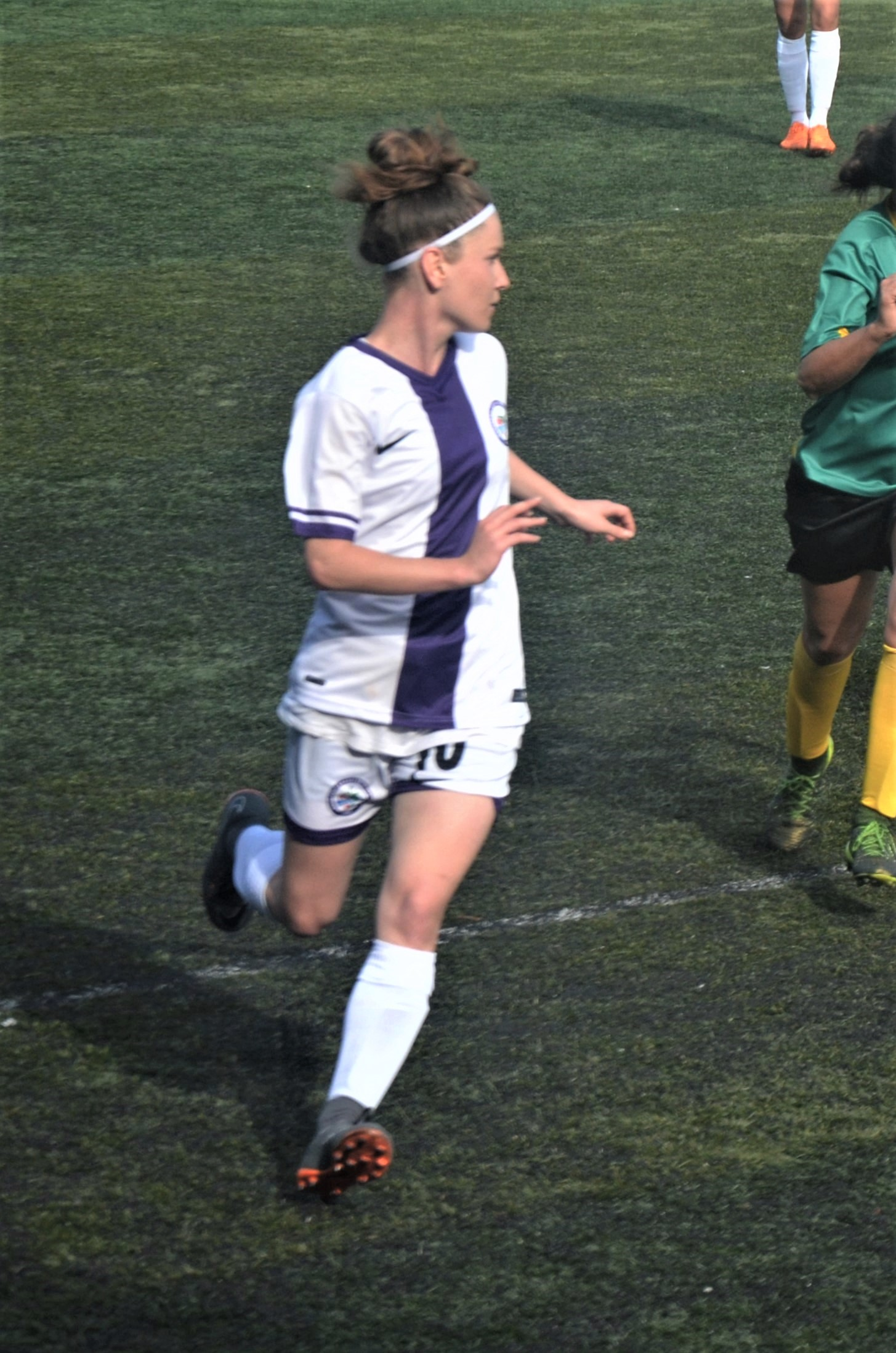 Ece Türkoğlu of Kdz. Ereğlu in the 2018-19 Turkish Women's First League.